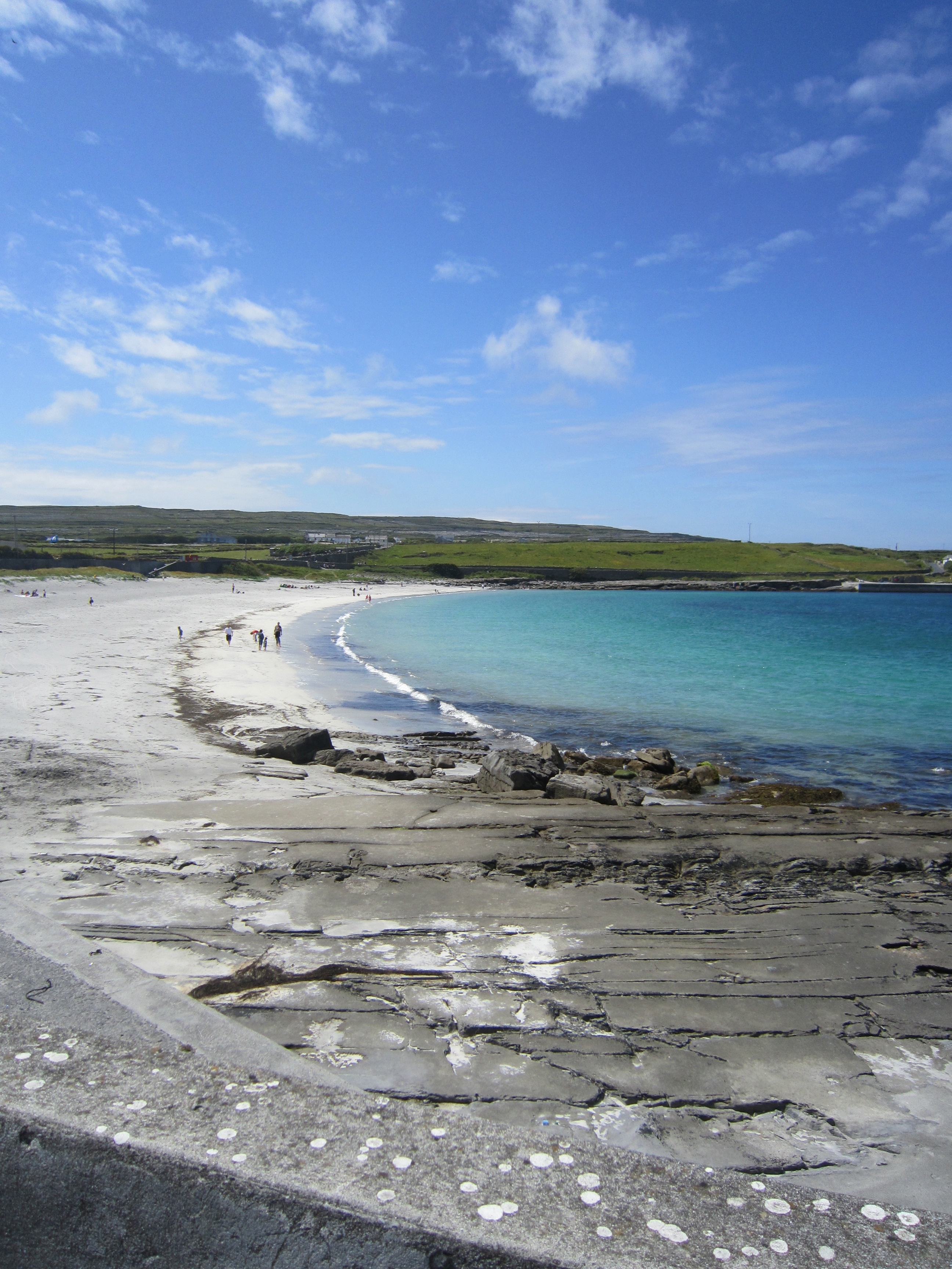 White Beach on Inishmore